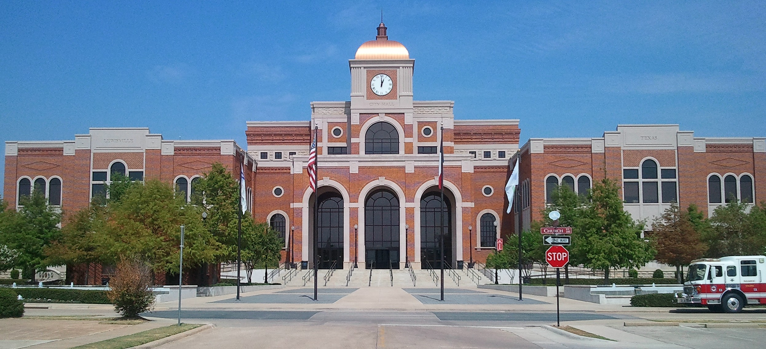 Lewisville City Hall, built in 2002 and opened in 2003.